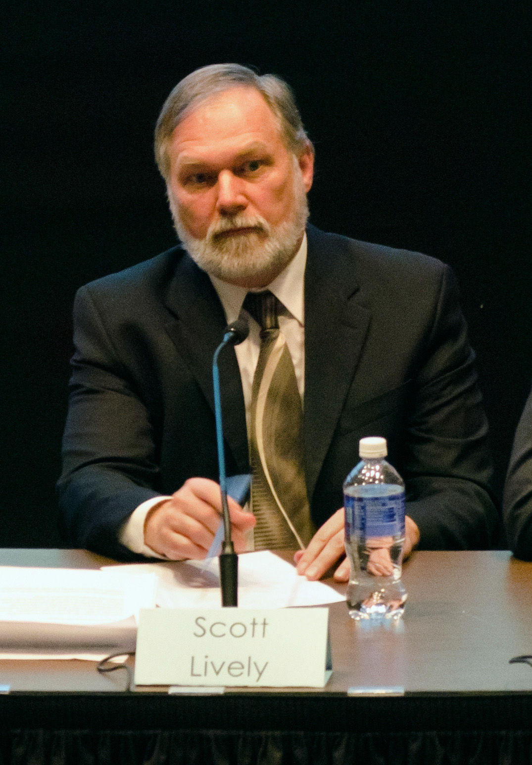 Scott Lively, candidate for Governor of Massachusetts, at the 2014 MassEquality and WGBH Gubernatorial Forum on LBGTQ issues, held at the Boston Public Library on March 25, 2014.